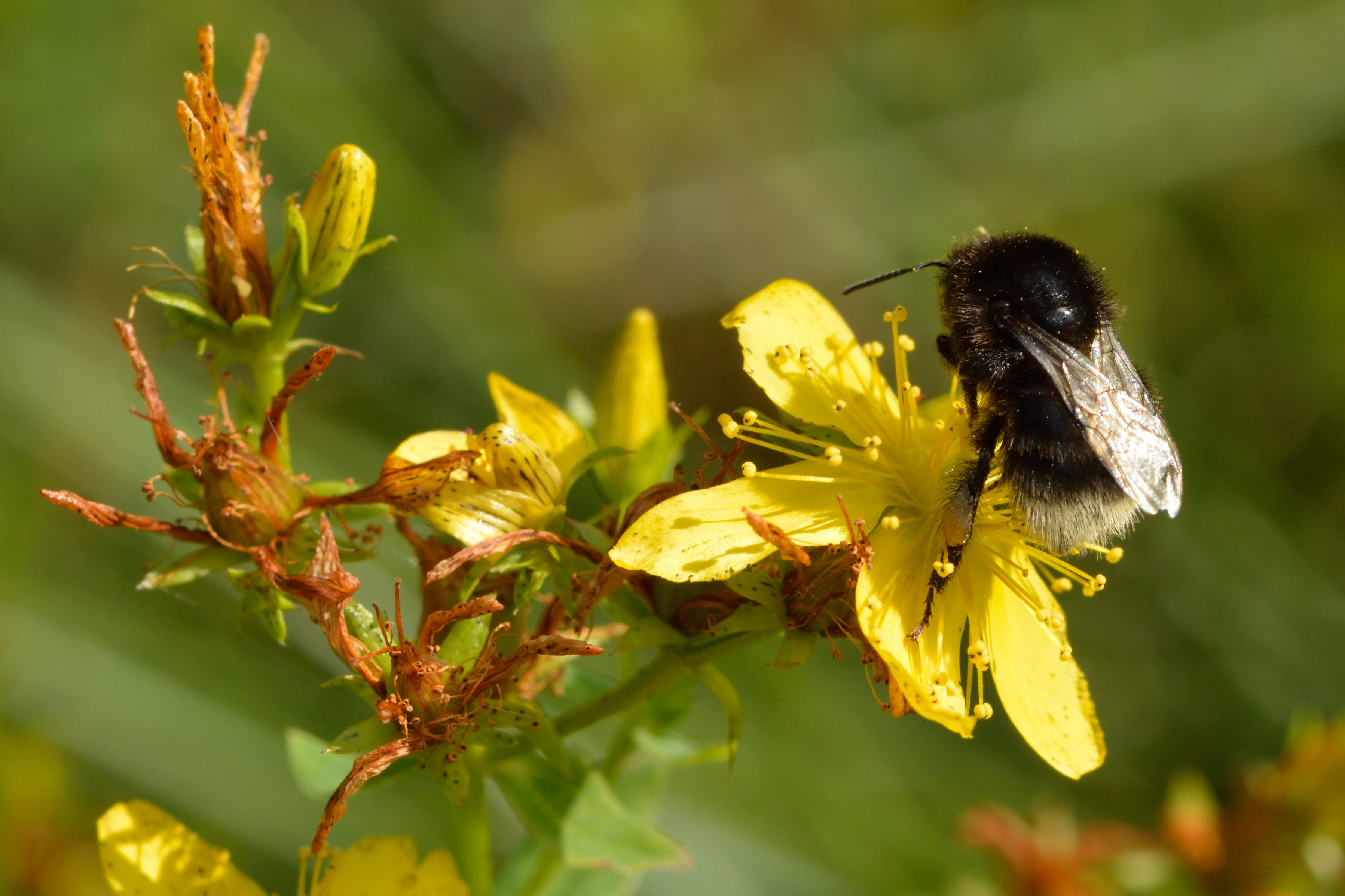 Broken-belted bumblebee (Bombus soroeensis subsp. proteus) on the spotted St. Johnswort (Hypericum maculatum).